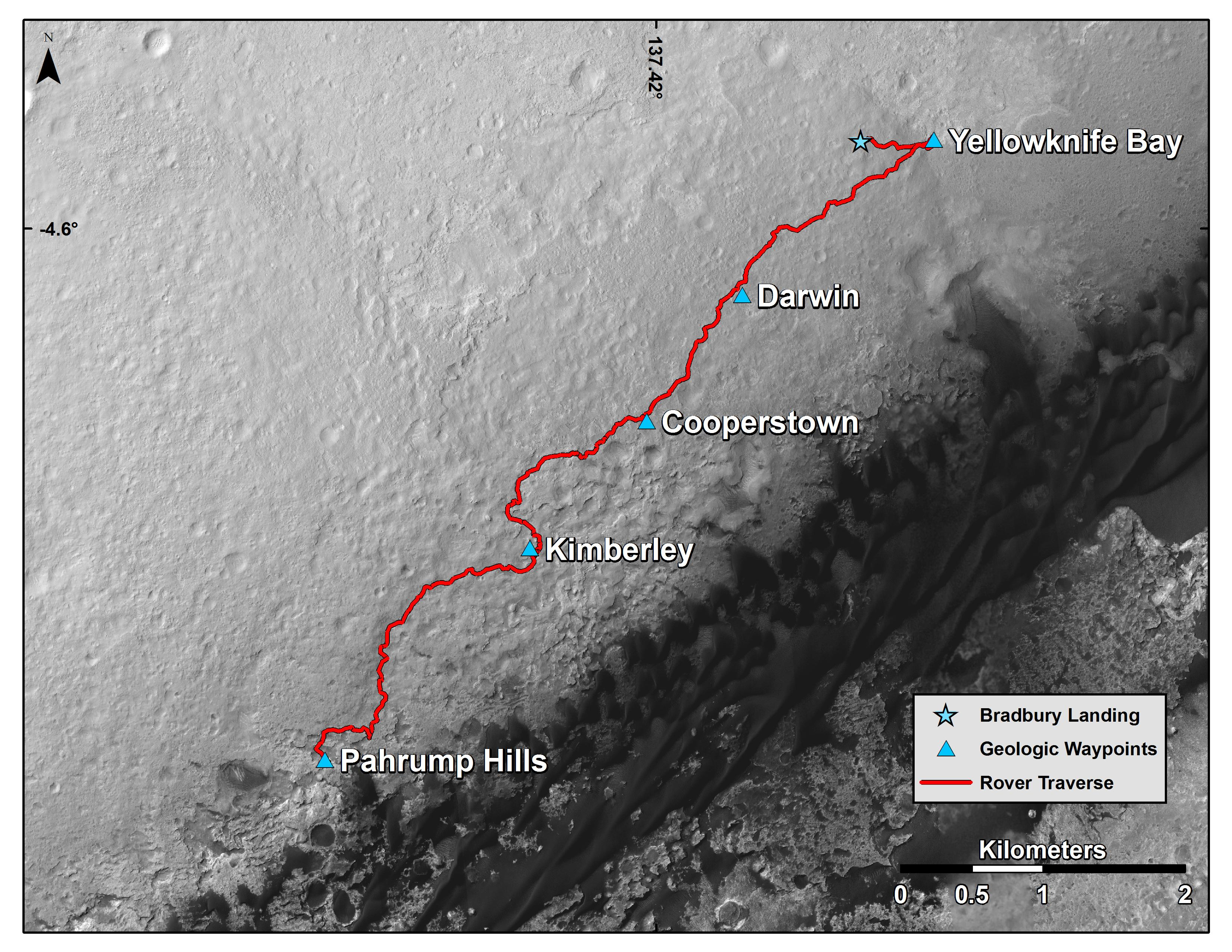 12.08.2014 Curiosity's Route from Landing to 'Pahrump Hills' Image Caption: Curiosity Mars Rover's Route from Landing to Base of Mount Sharp This map shows the route driven by NASA's Curiosity Mars rover from the location where it landed in August 2012 to the "Pahrump Hills" outcrop, which is part of the basal layer of Mount Sharp. The traverse line covers drives completed through the 817th Martian day, or sol, of Curiosity's work on Mars (Nov. 23, 2014). The base image for this map is from the High Resolution Imaging Science Experiment (HiRISE) camera on NASA's Mars Reconnaissance Orbiter. North is up. The dark ground south of the rover's route has dunes of dark, wind-blown material at the foot of Mount Sharp. The scale bar at lower right represents two kilometers (1.2 miles). For broader-context images of the area, and NASA's Jet Propulsion Laboratory, a division of the California Institute of Technology, Pasadena, manages the Mars Science Laboratory Project and Mars Reconnaissance Orbiter Project for NASA's Science Mission Directorate, Washington. For more information about the Mars Science Laboratory mission and the mission's Curiosity rover, visit and